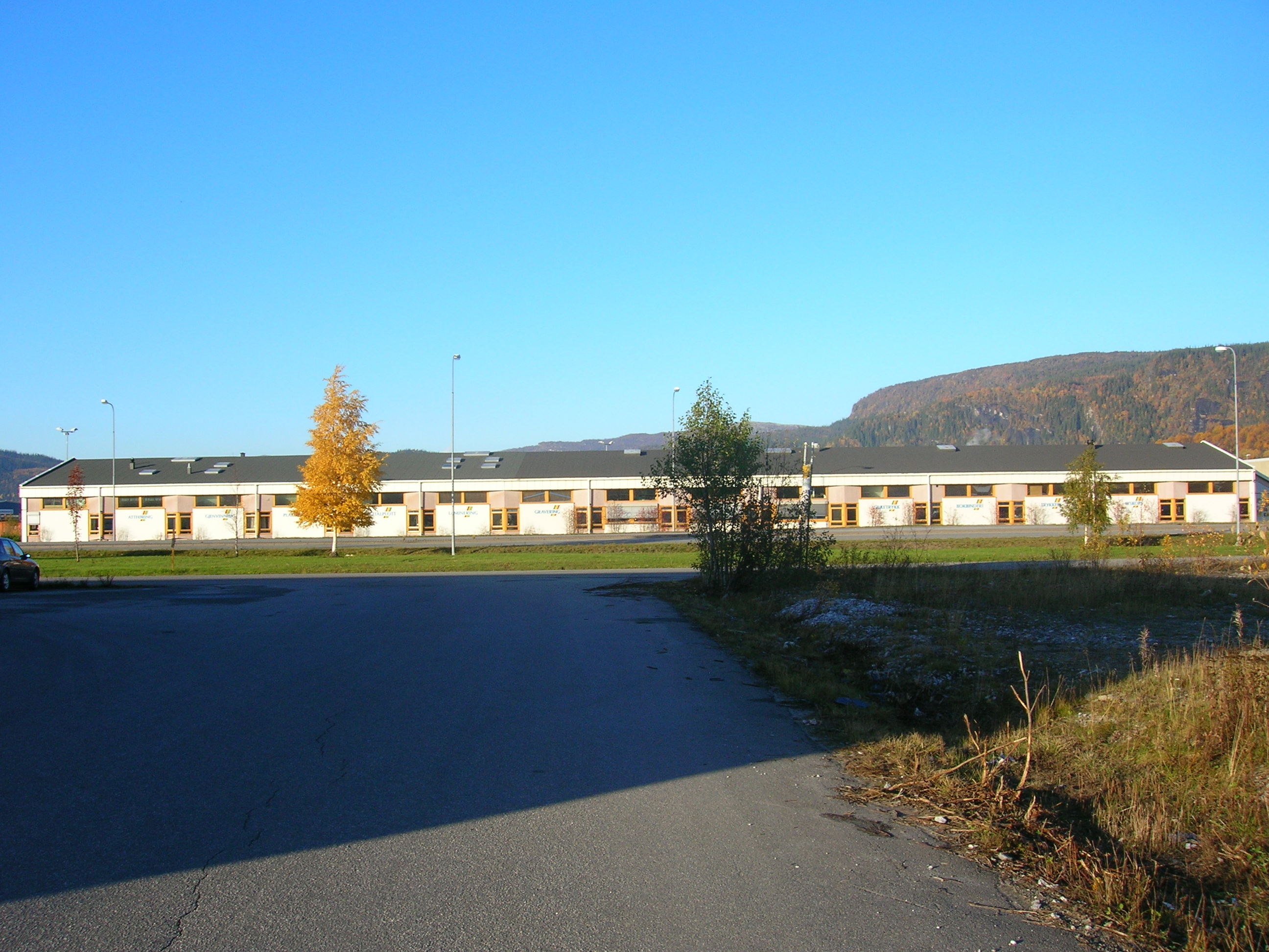 Rana Produkter AS, Mo i Rana, Rana municipality, county of Nordland, Norway, Photo 5 October, 2007 with a Nikon Coolpix 5600 5,1 Megapixel camera.